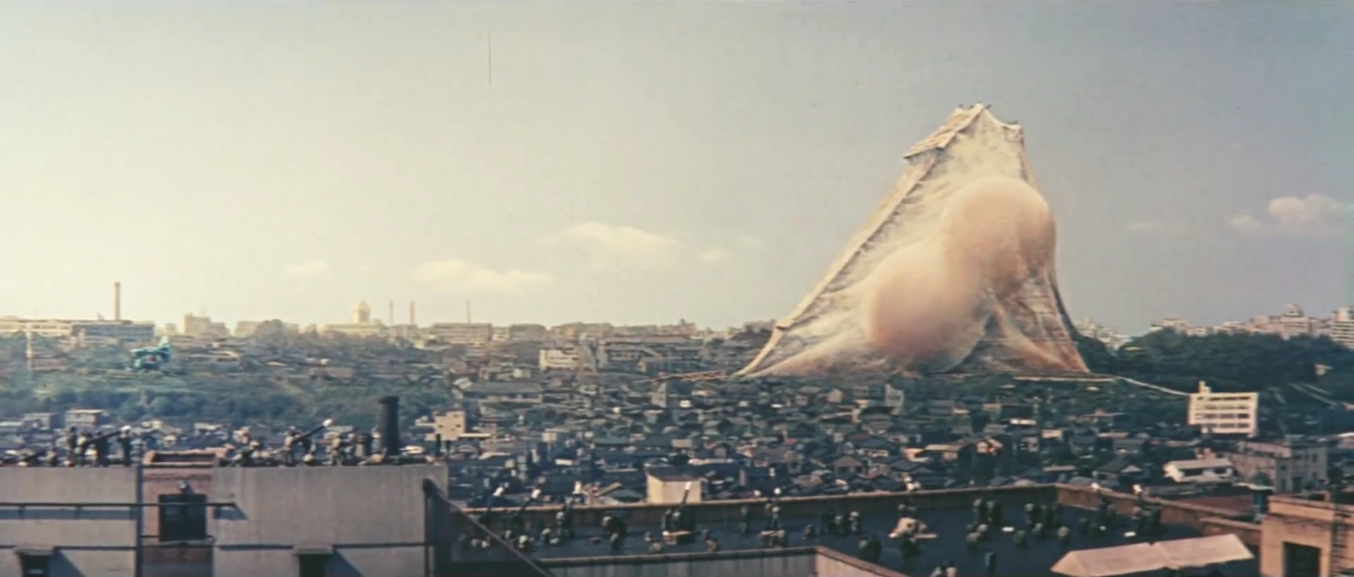 Scene from Mothra.